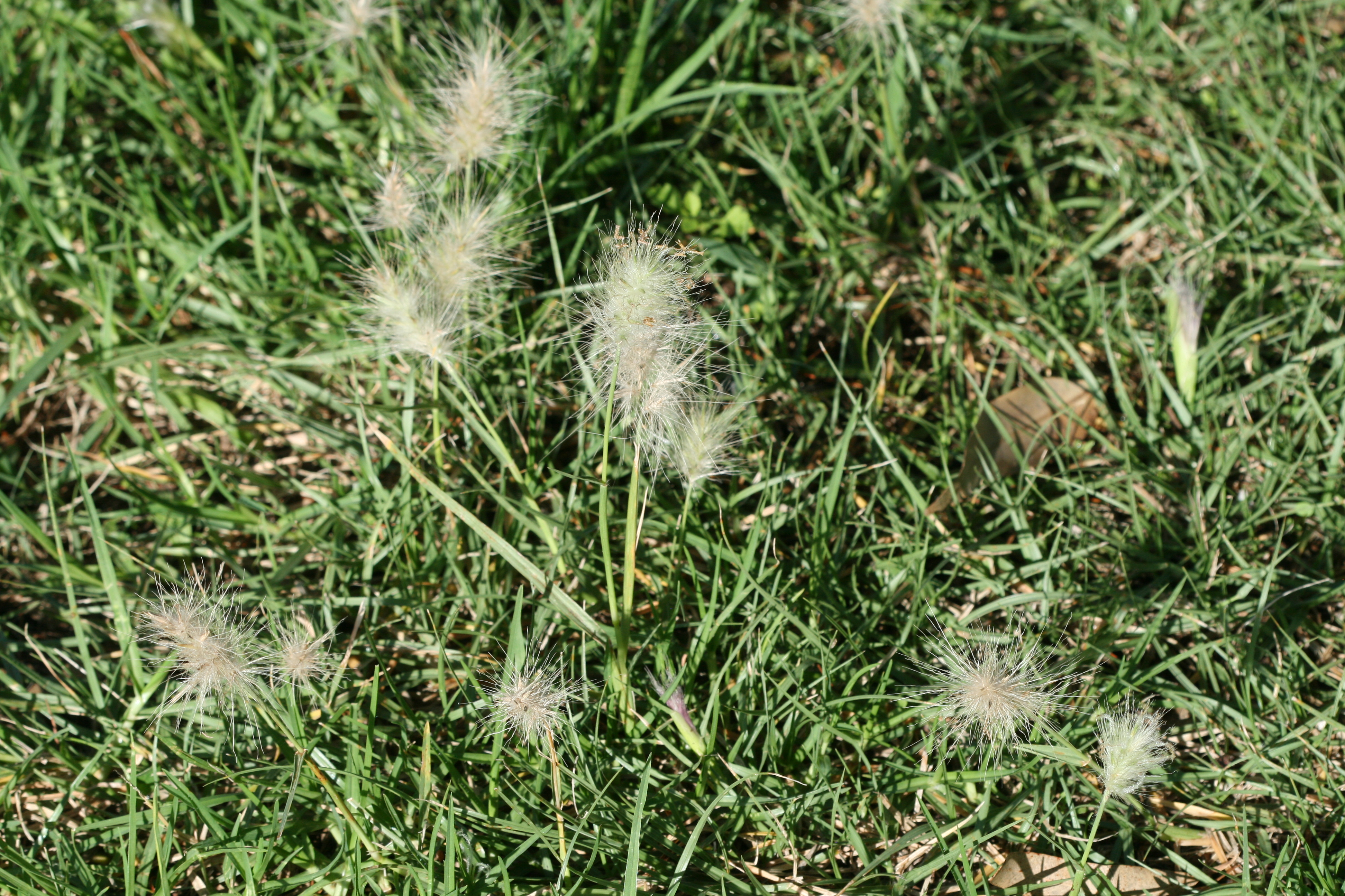 Feathertop or White Foxtail (Pennisetum villosum) along roadside in Towoomba, Queensland, Australia. Photographed on 18 April 2009.